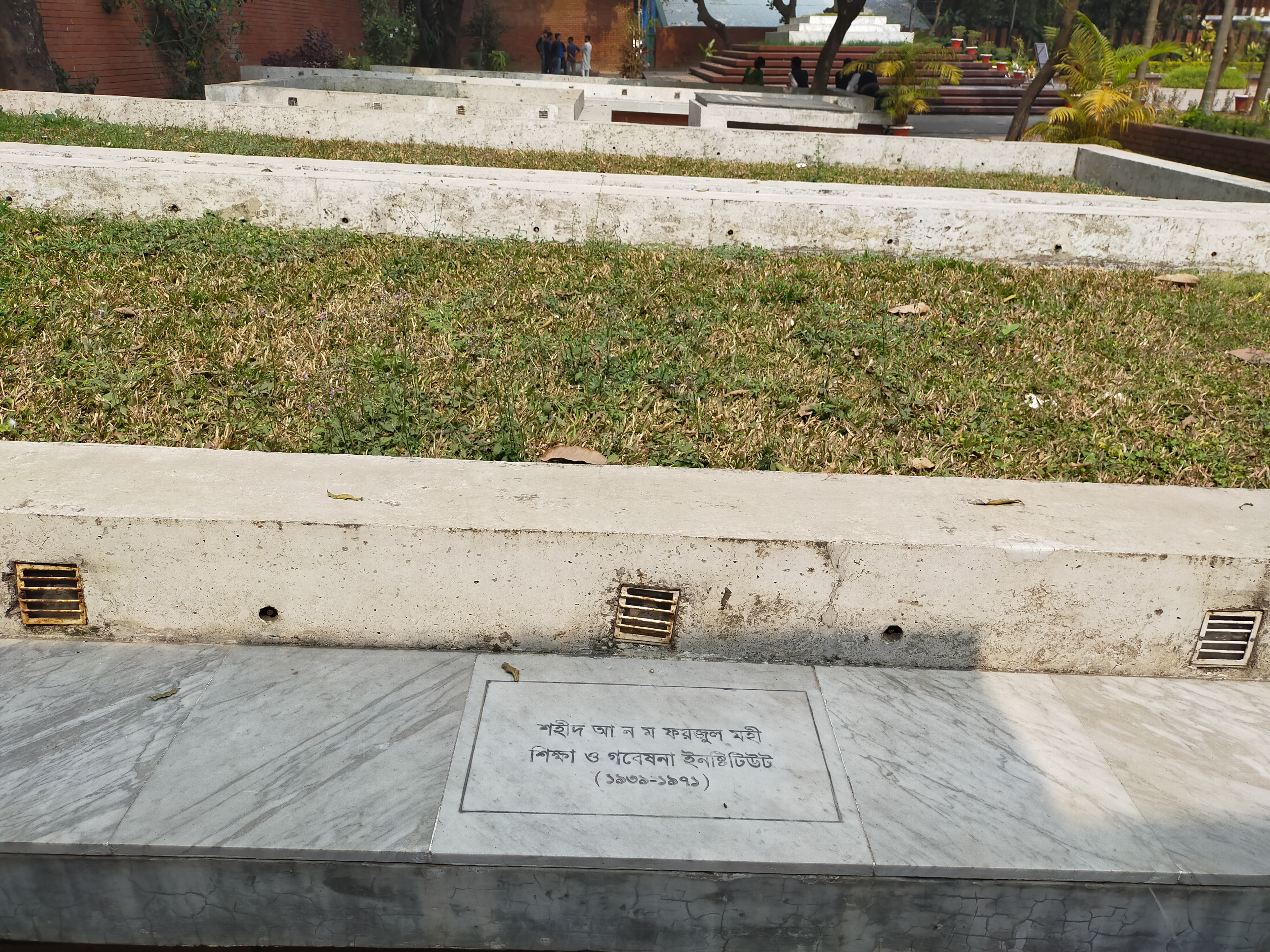 Grave of Dr. ANM Faizul Mahi, (1939 – 1971) by the side of Dhaka University central mosque, a Bengali educationist and martyred intellectual of 1971.